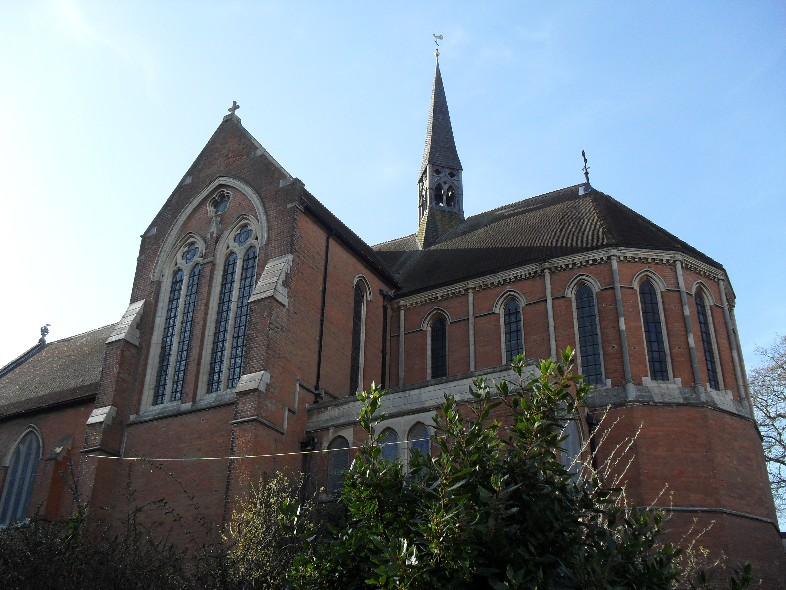 Apsidal chancel and south transept of St Matthew's parish church, Silverhill, St Leonards-on-Sea, East Sussex, seen from the southeast from London Road